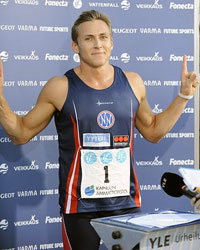 Matti Välimäki at Kalevan kisat 2010